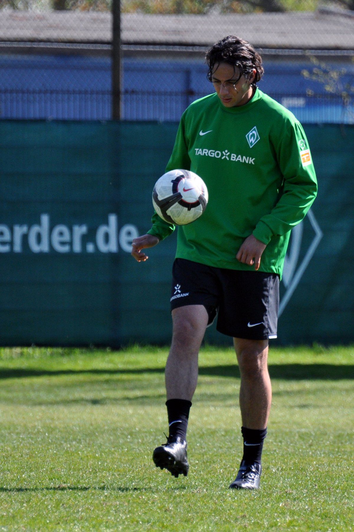 Claudio Pizarro, April 2010.